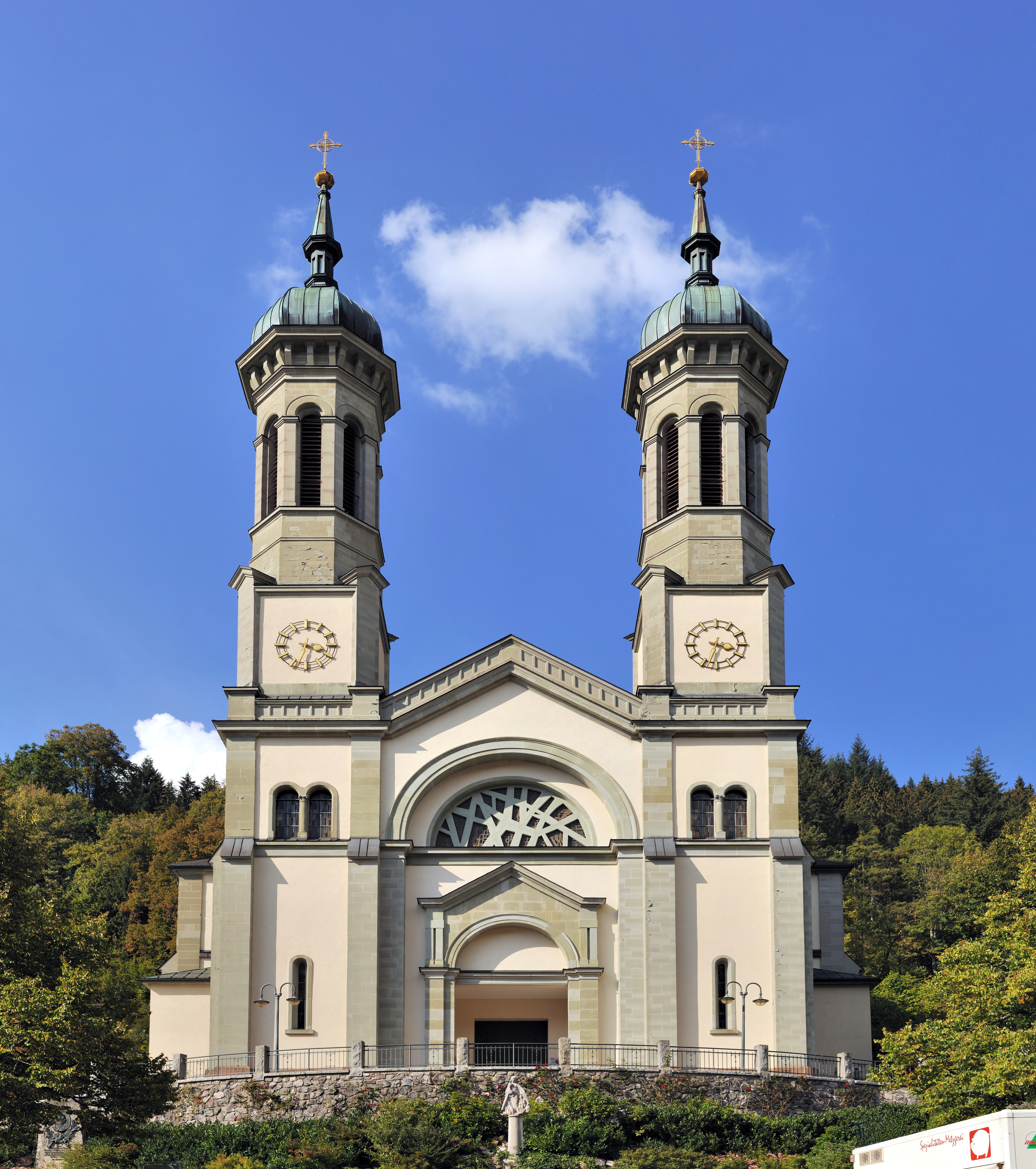 Todtnau: Saint John the Baptist Church.